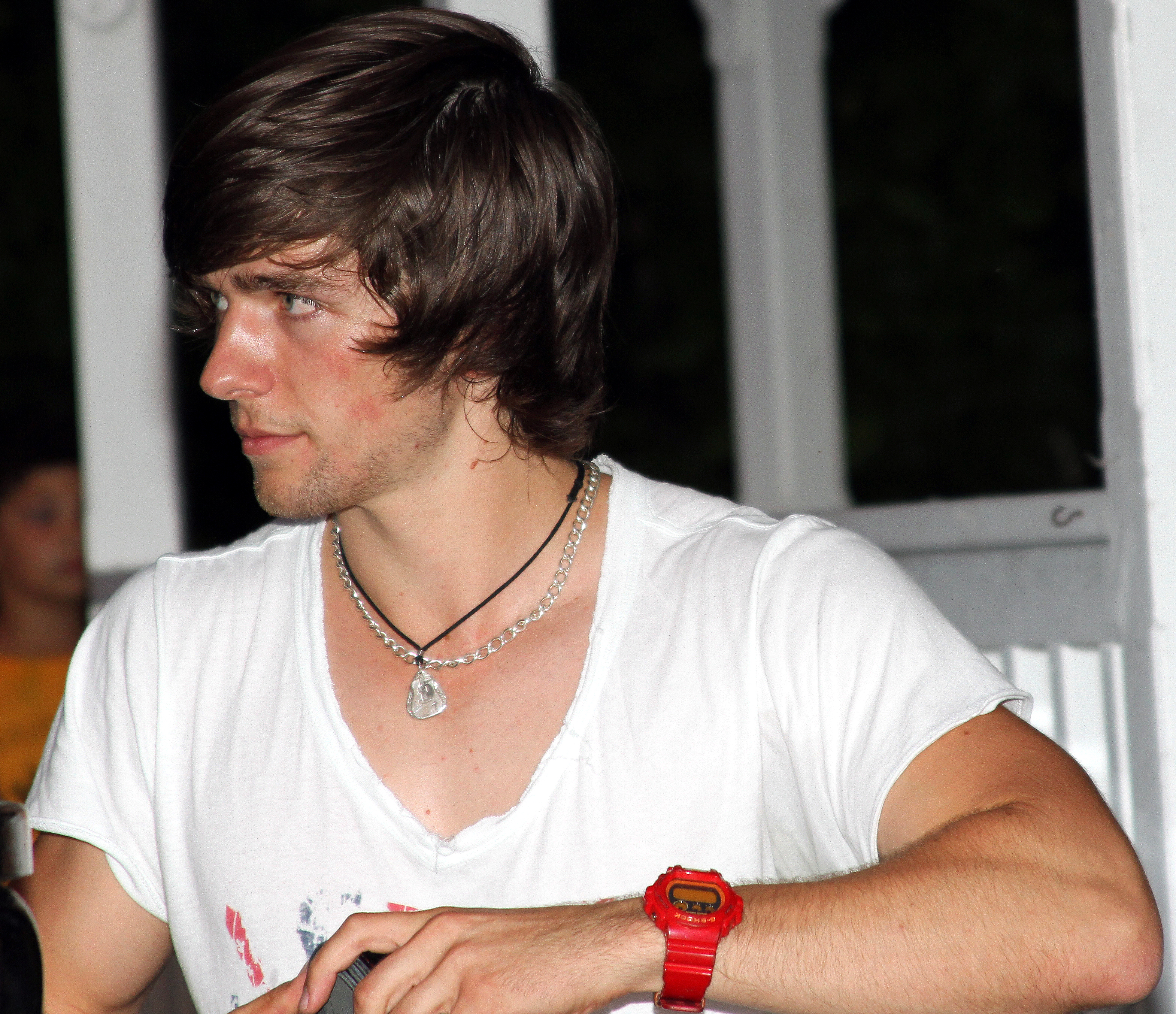 Paparazzo Presents...photo of American Idol Season Nine finalist Tim Urban in New Windsor, NY on July 20, 2011